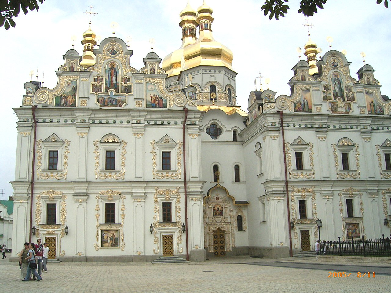 Description: Uspensky Sobor of the Cave Monastery in Kiev Author: Alexander Noskin Date: 8-11-2005